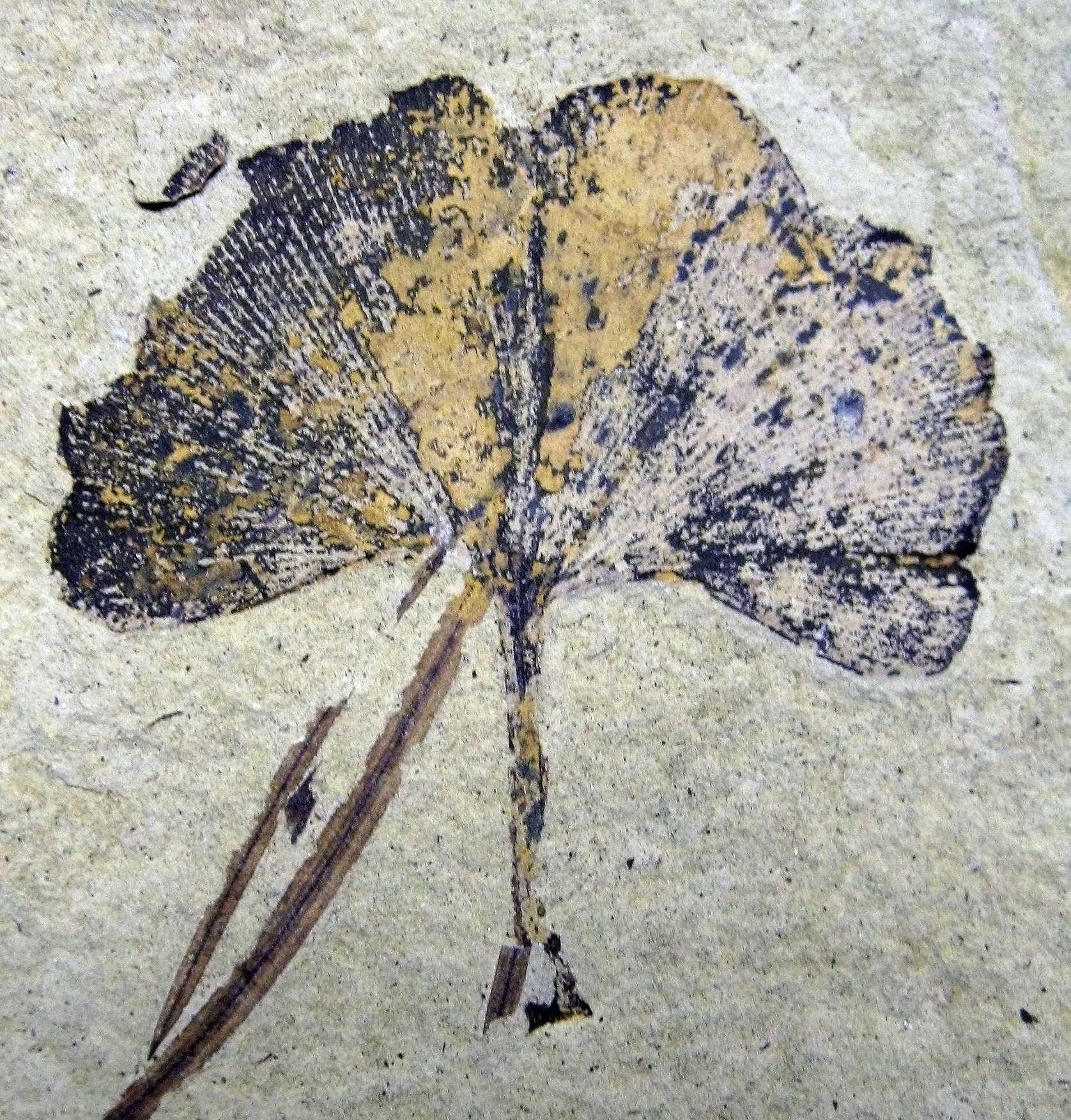 A 70mm wide Ginkgo biloba leaf. Klondike Mountain Formation, Republic, Ferry County, Washington, USA, Eocene, Ypresian, 49 million years old. Stonerose Interpretive Center Collection # SR 87-36-02 A